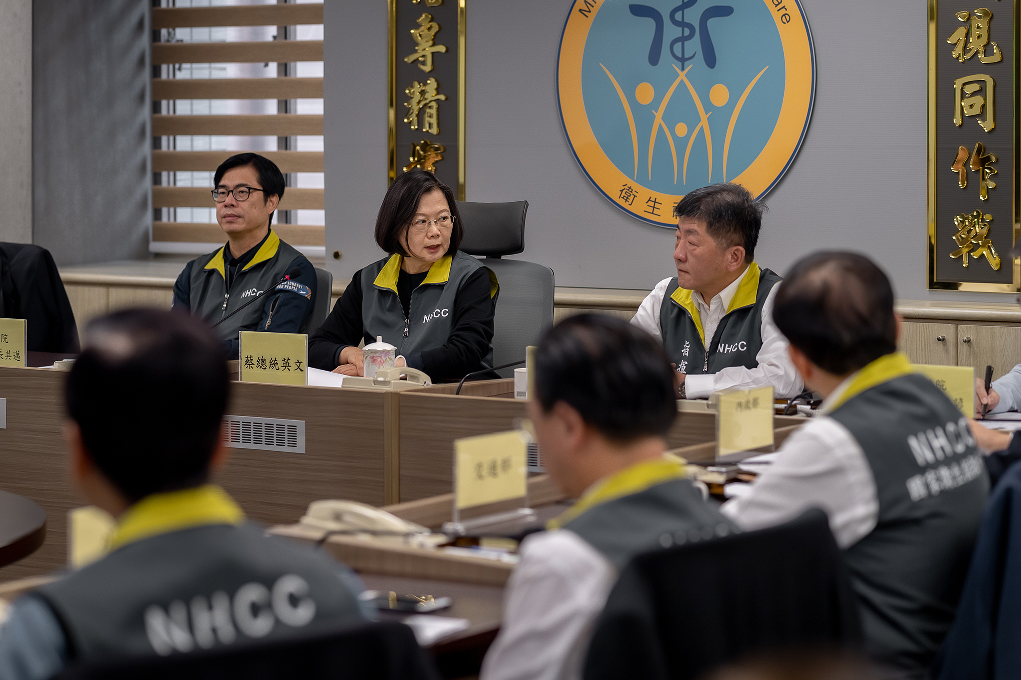 Official Photo by Makoto Lin / Office of the President